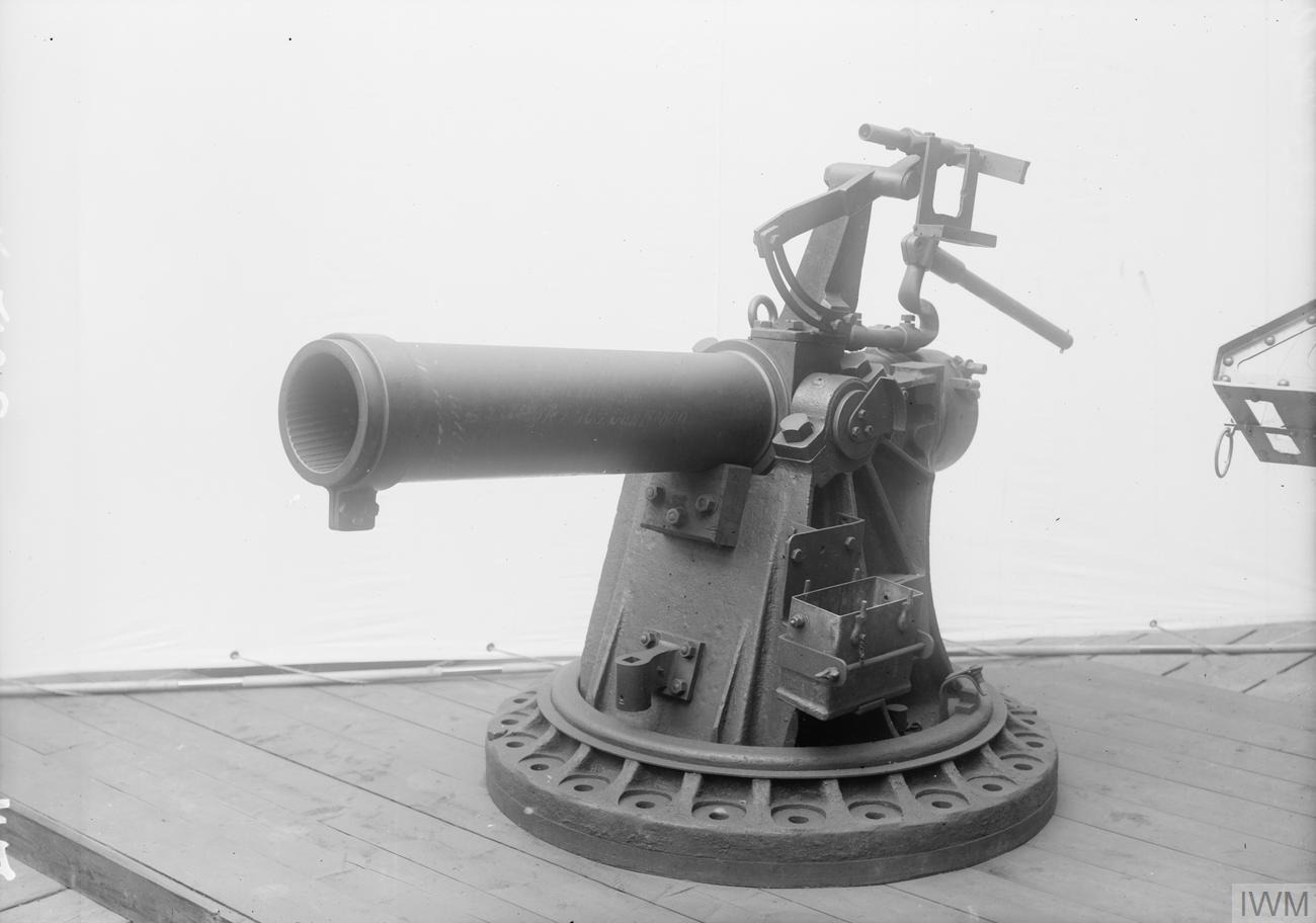 Photograph of Imperial War Museum exhibit at Crystal Palace, relating to the Zeebrugge Raid, 22-23 April 1918: One of two 7.5-inch Howitzer Mk.Is fitted to HMS Vindictive as a support weapon for bombarding German defences whilst an assault force of Royal Marines and officers and men of the Royal Navy landed on the sea mole at Zeebrugge.